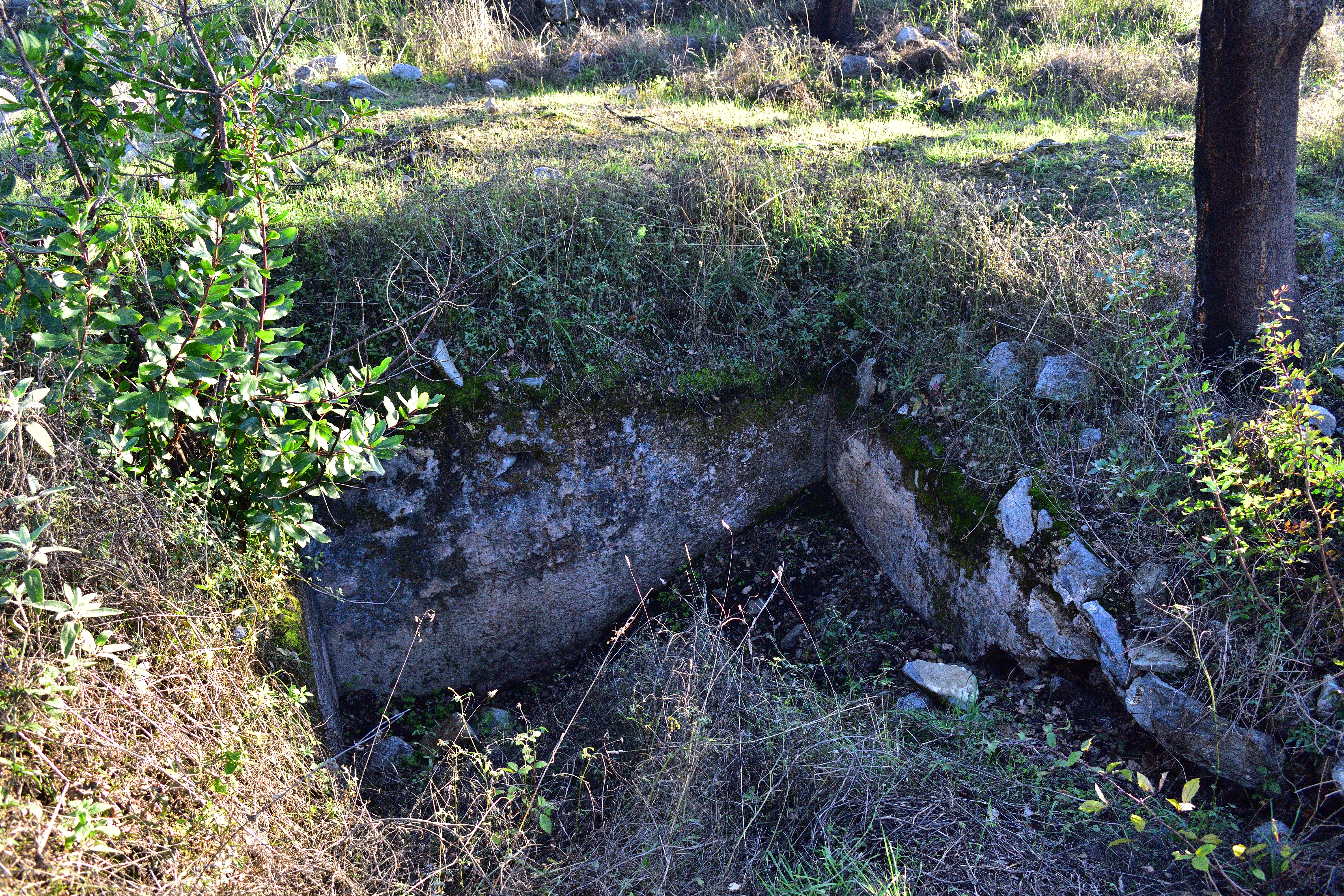 View of the Castle of Alferce, in the region of Algarve, in Portugal.